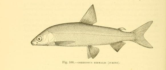 Illustration in the book Fresh-Waters Fishes of Europe. A History of their Genera, Species, Structure, Habits and Distribution by Harry Govier Seeley (1839-1909)